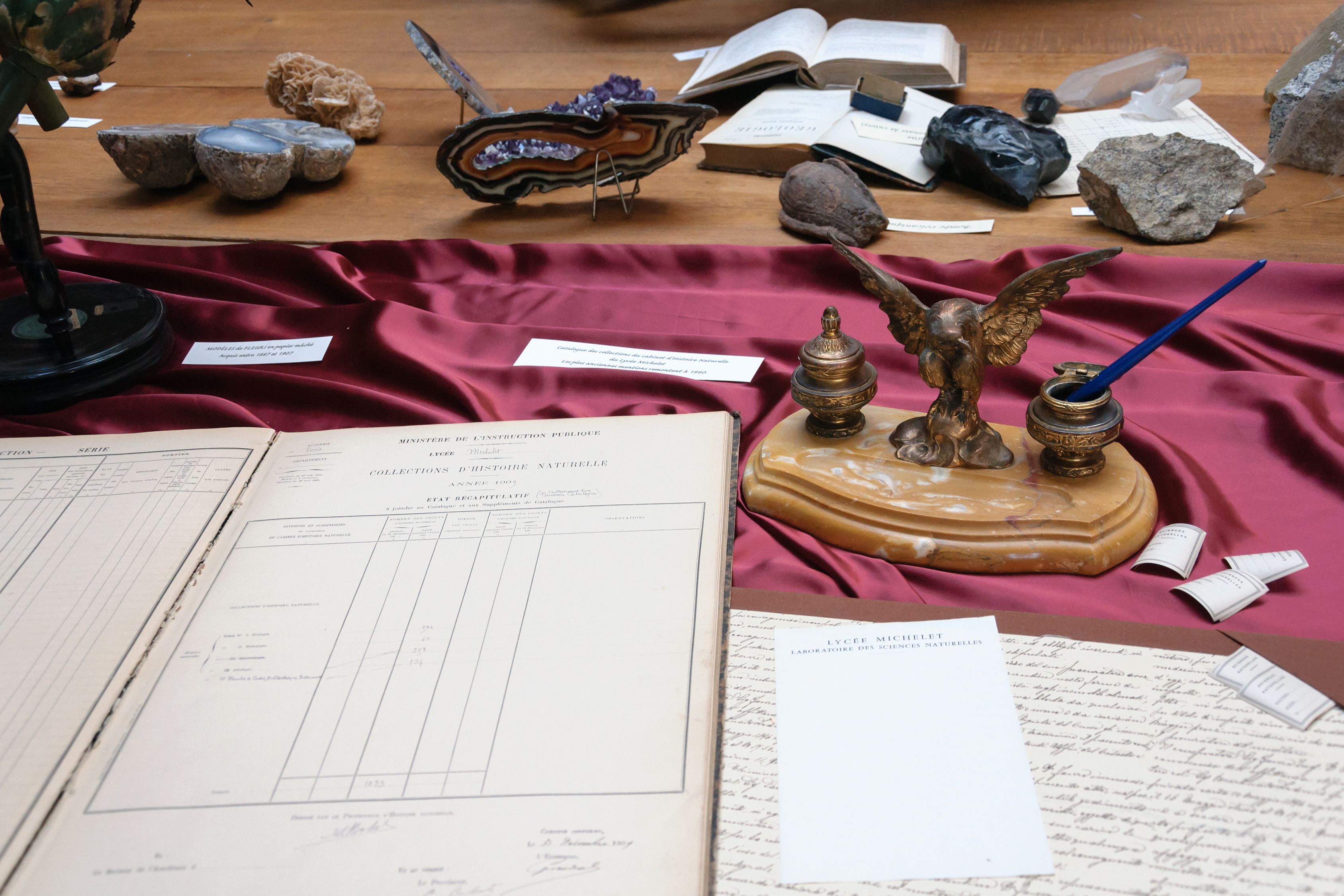 Lycée Michelet in Vanves, Hauts-de-Seine, France: a catalog of the natural history collection on display in the library during the 150th anniversary of the institution.